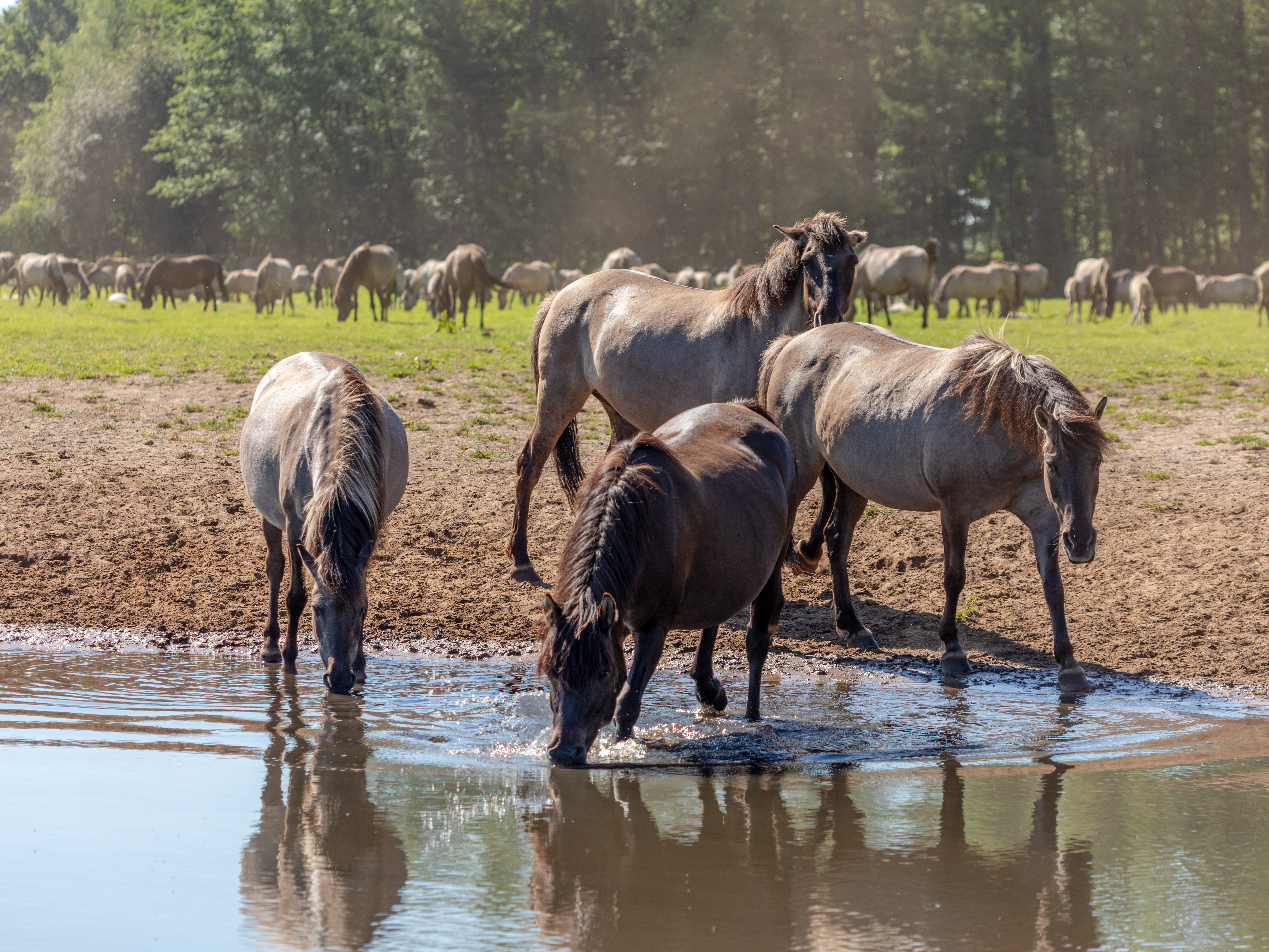 Dülmen pony in the Merfeld Bruch, Merfeld, Dülmen, North Rhine-Westphalia, Germany